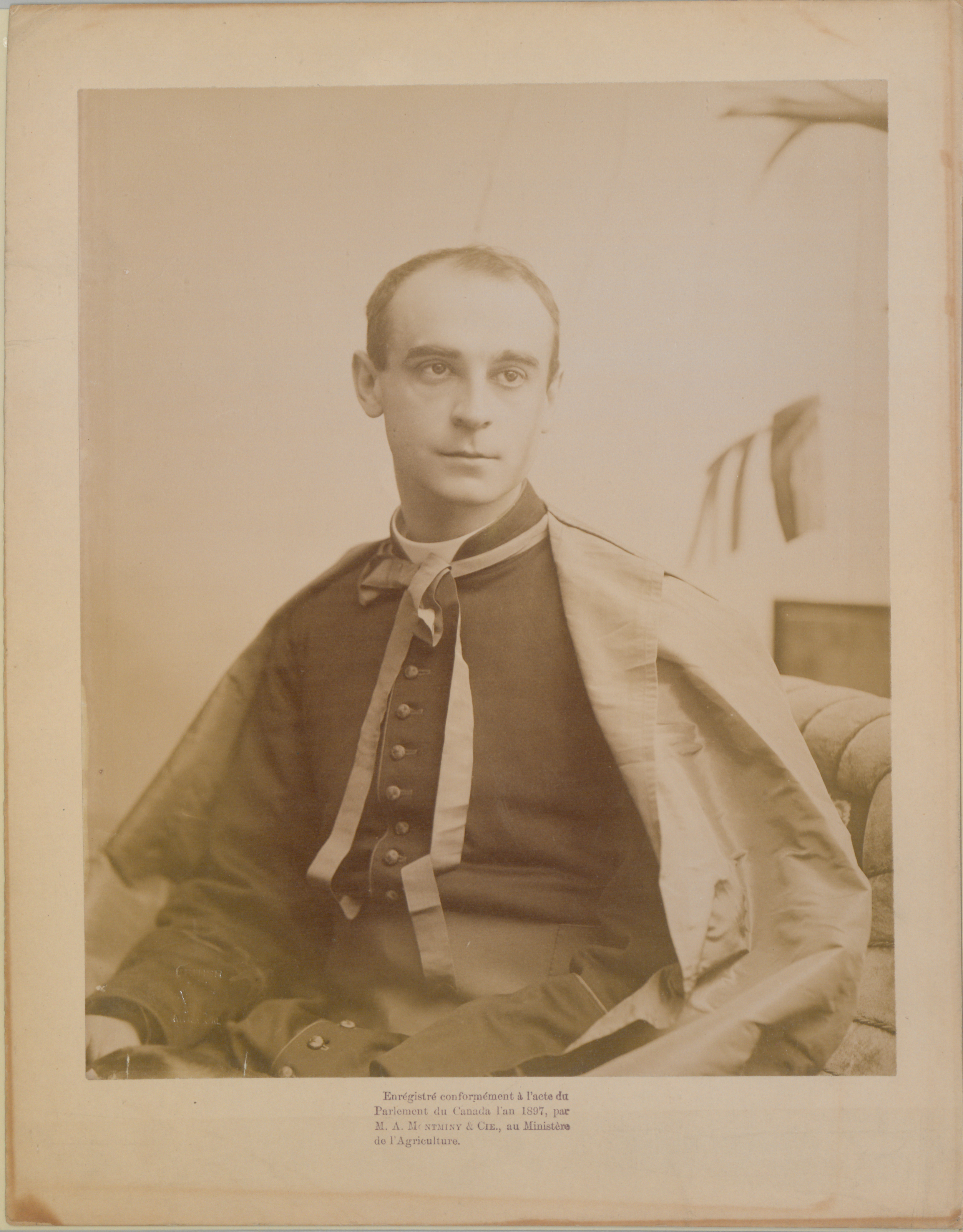 Mgr. Merry Del Val. Papal Delegate. Half-length cabinet portrait of Rafael Merry Del Val.